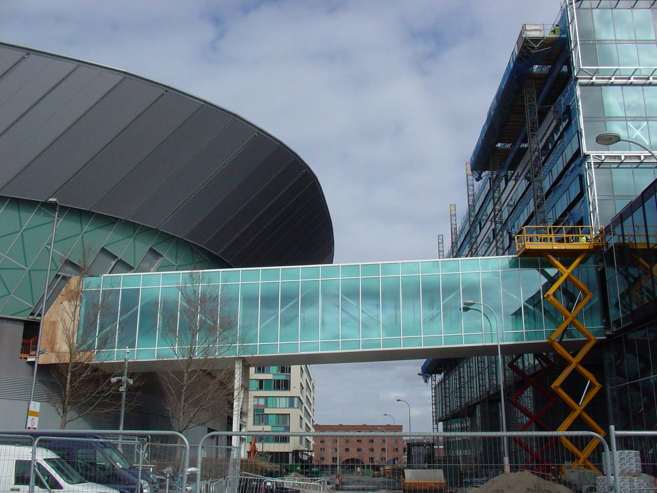 Construction of Exhibition Centre Liverpool, Kings Dock, Liverpool, England. Showing the interconnecting passage between the exisiting BT Convention Centre facilities (left) and the new Exhibition Centre (right).